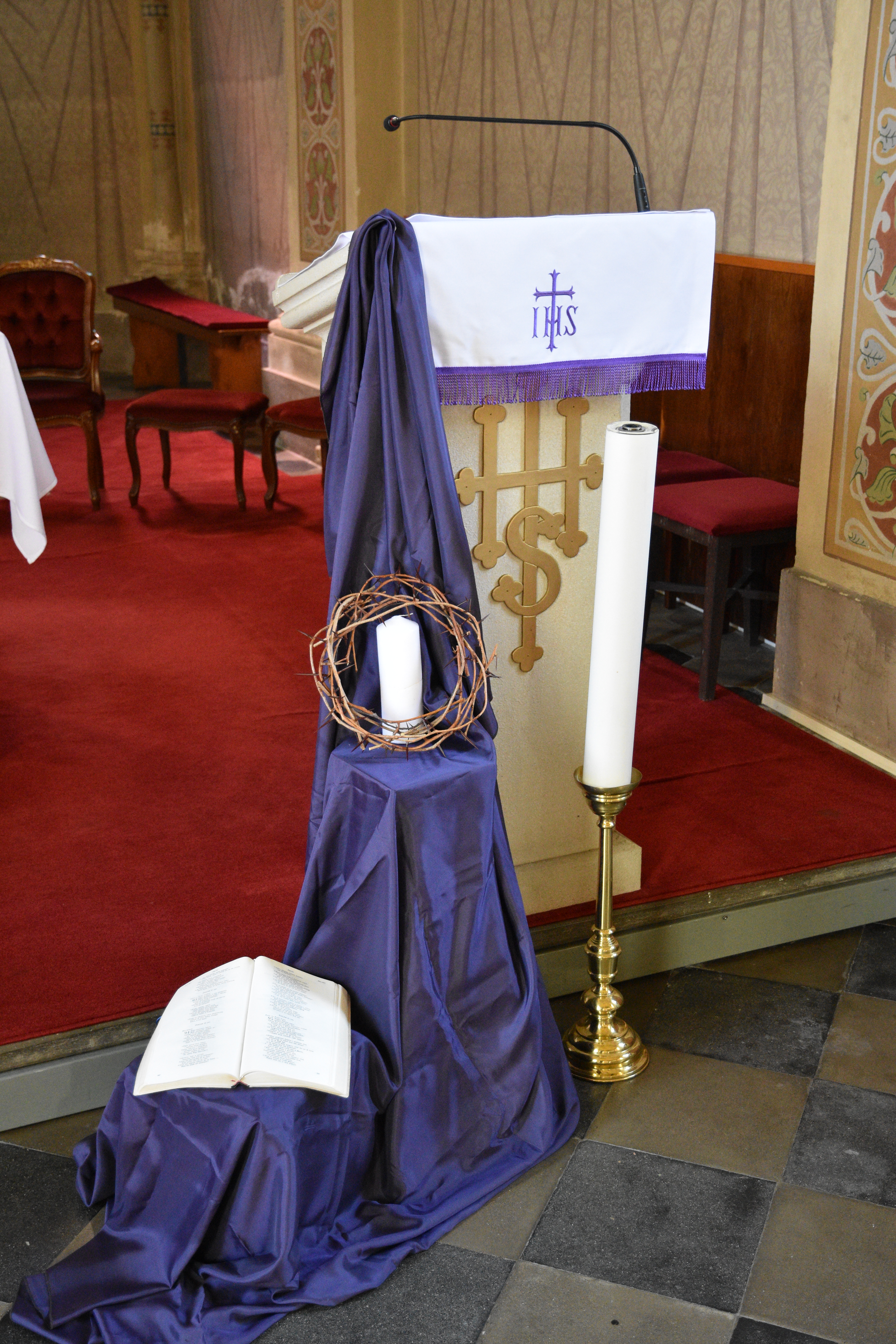 Church Unterpullendorf - Interior